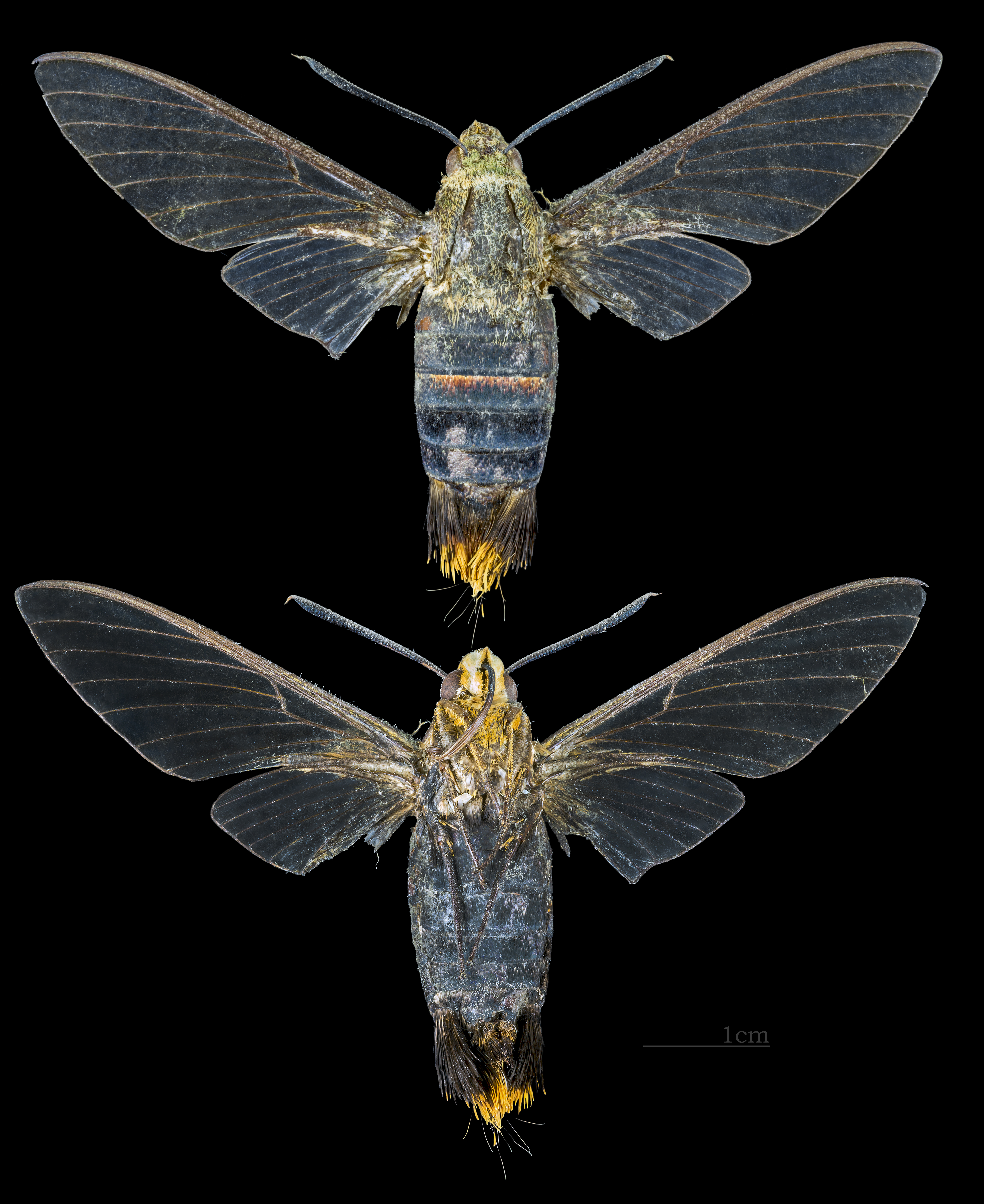 Cephonodes banksi - Two views of same specimen